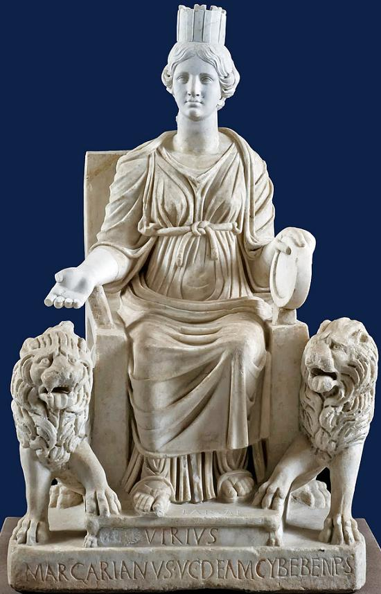 Cybèbè (id est: Cybèle) Potnia Theron, maîtresse des fauves, découverte dans le Latium, IIIe siècle A.C., art hellénistique, Musée archéologique de Naples. Traduction de l'inscription: "Virius Marcarianus, à la très bonne réputation, pour la déesse Cybèbè a fait déposer (ou a payé de son argent)."